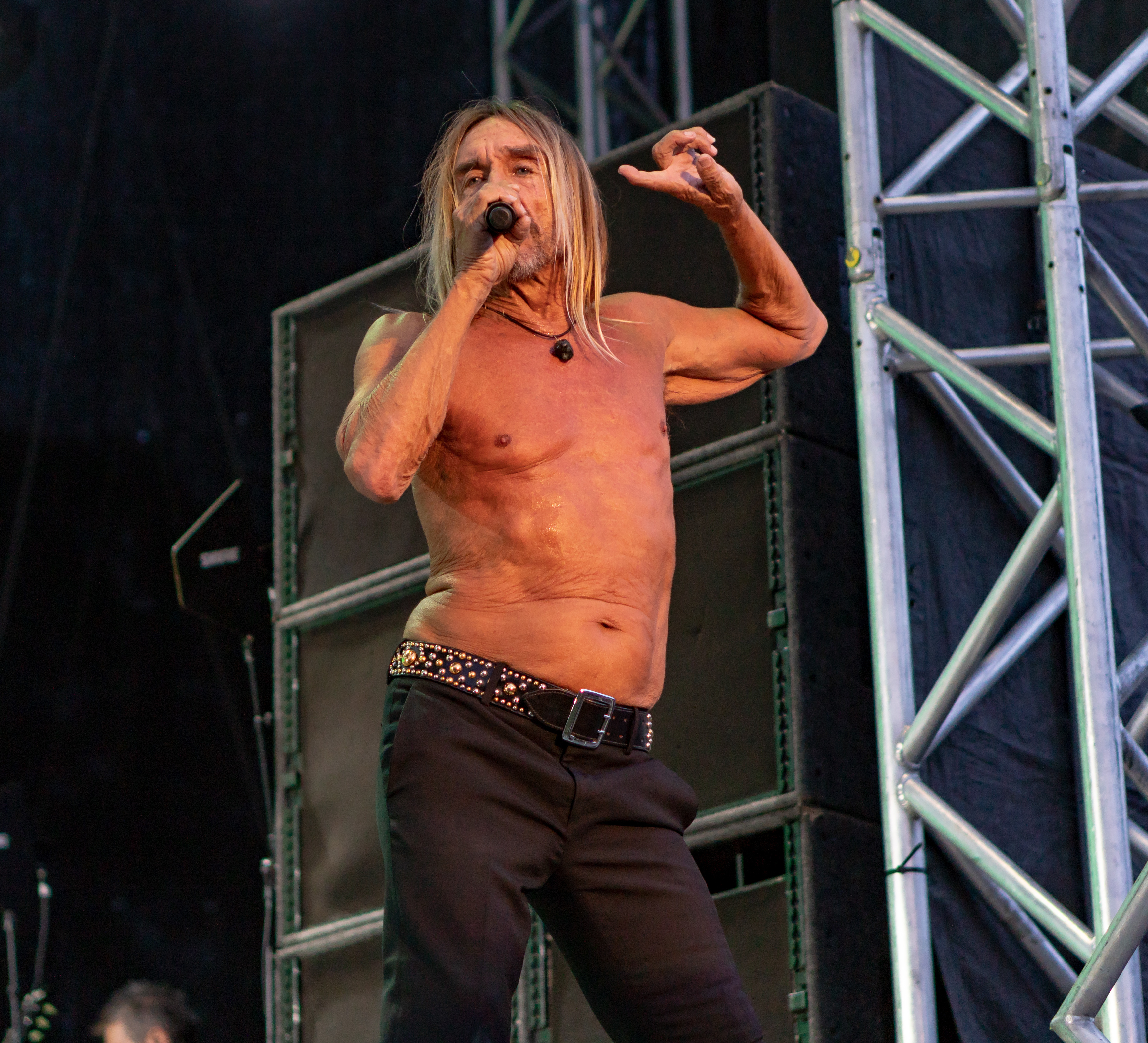 WOWGoth090818-206